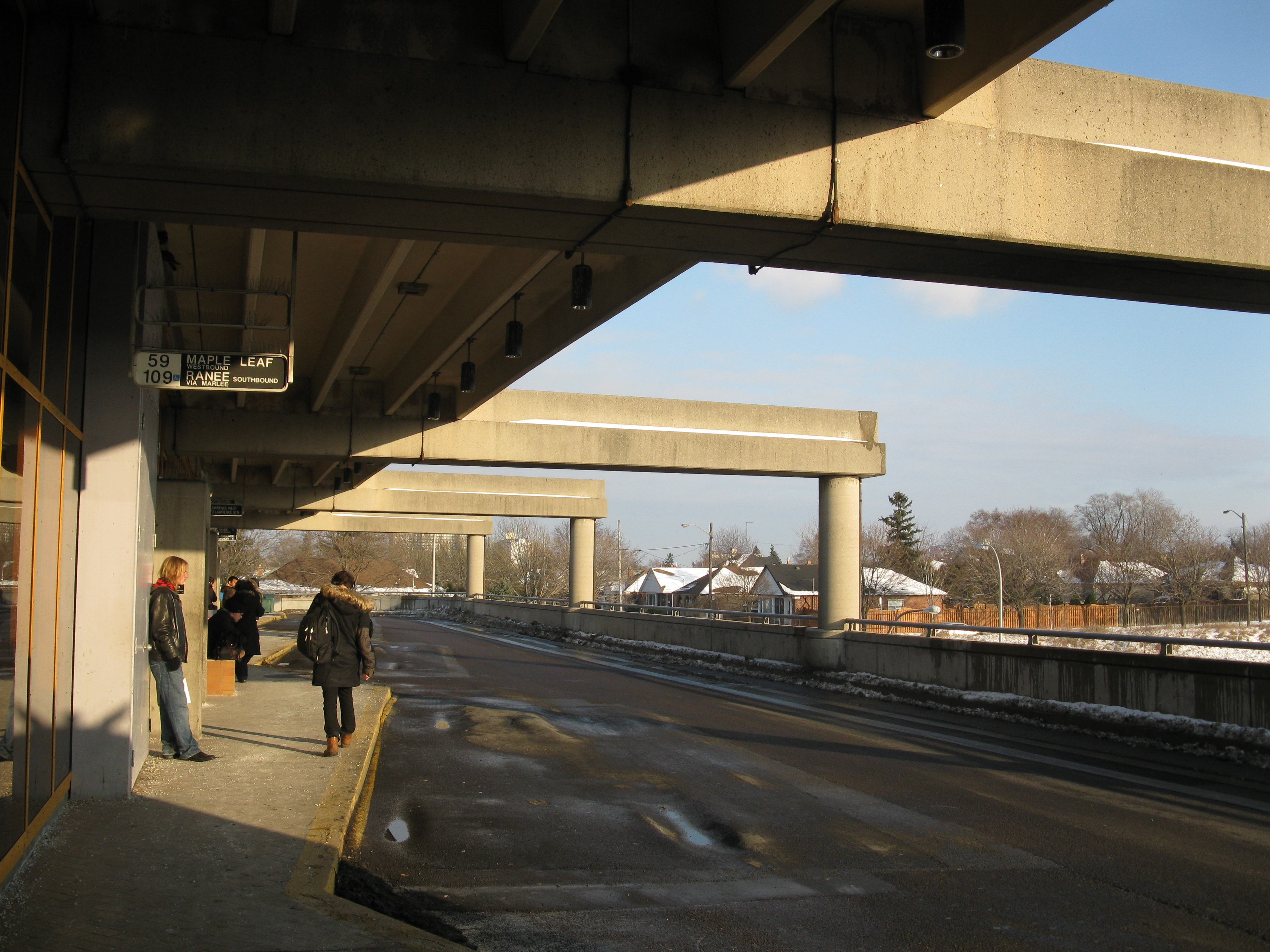 Inside the TTC's Lawrence West Station, 2013 01 05